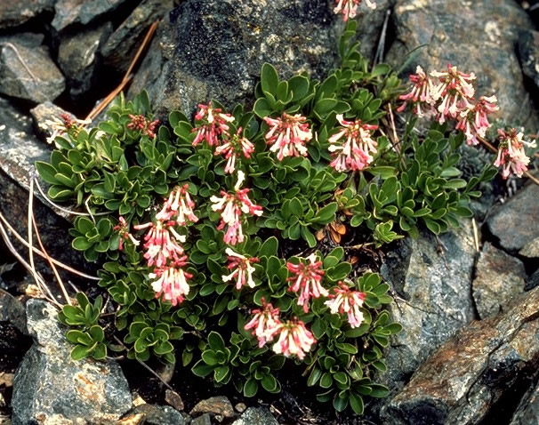 'Penstemon tracyi — Trinity penstemon, Tracy's beardtongue. Endemic plant of the Trinity Alps, Klamath Mountains, northern California. Photo courtesy of Shasta-Trinity National Forest.